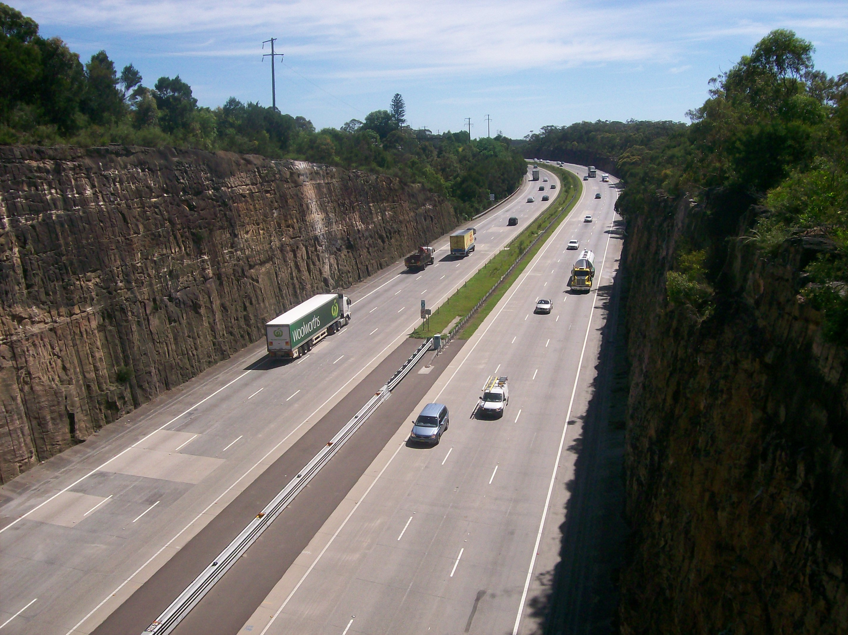 Sydney - Newcastle freeway north bound at Berowra